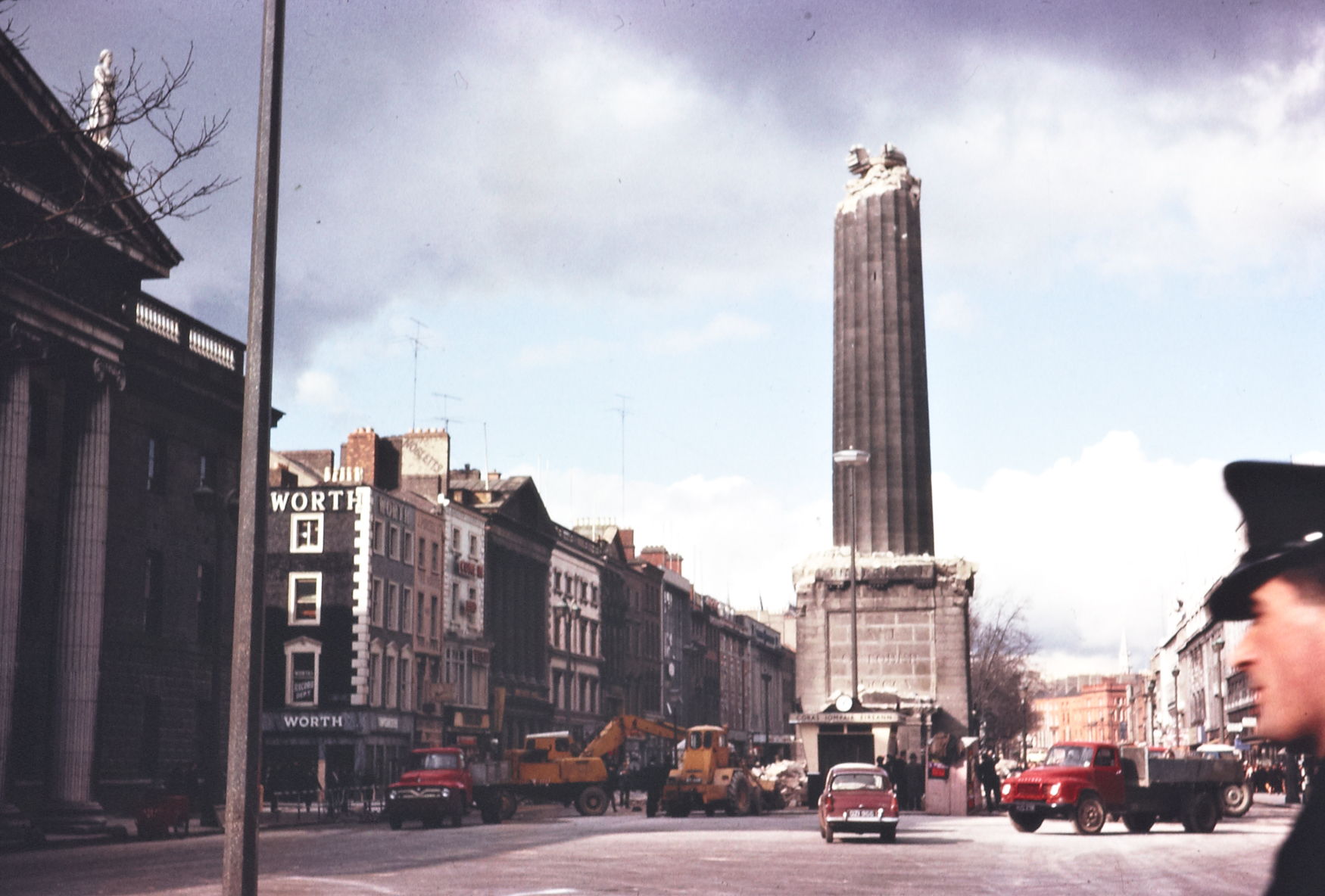 A half-demolished Nelson's Pillar on O'Connell Street, Dublin. From the front page of the Irish Times on Tuesday, 8 March 1966: "The top of Nelson Pillar, in O'Connell street, Dublin, was blown off by a tremendous explosion at 1.32 o'clock this morning and the Nelson statue and tons of rubble poured down into the roadway. By a miracle, nobody was injured, though there were a number of people in the area at the time." Date: Tuesday, 8 March 1966 NLI Ref.: WALK138A